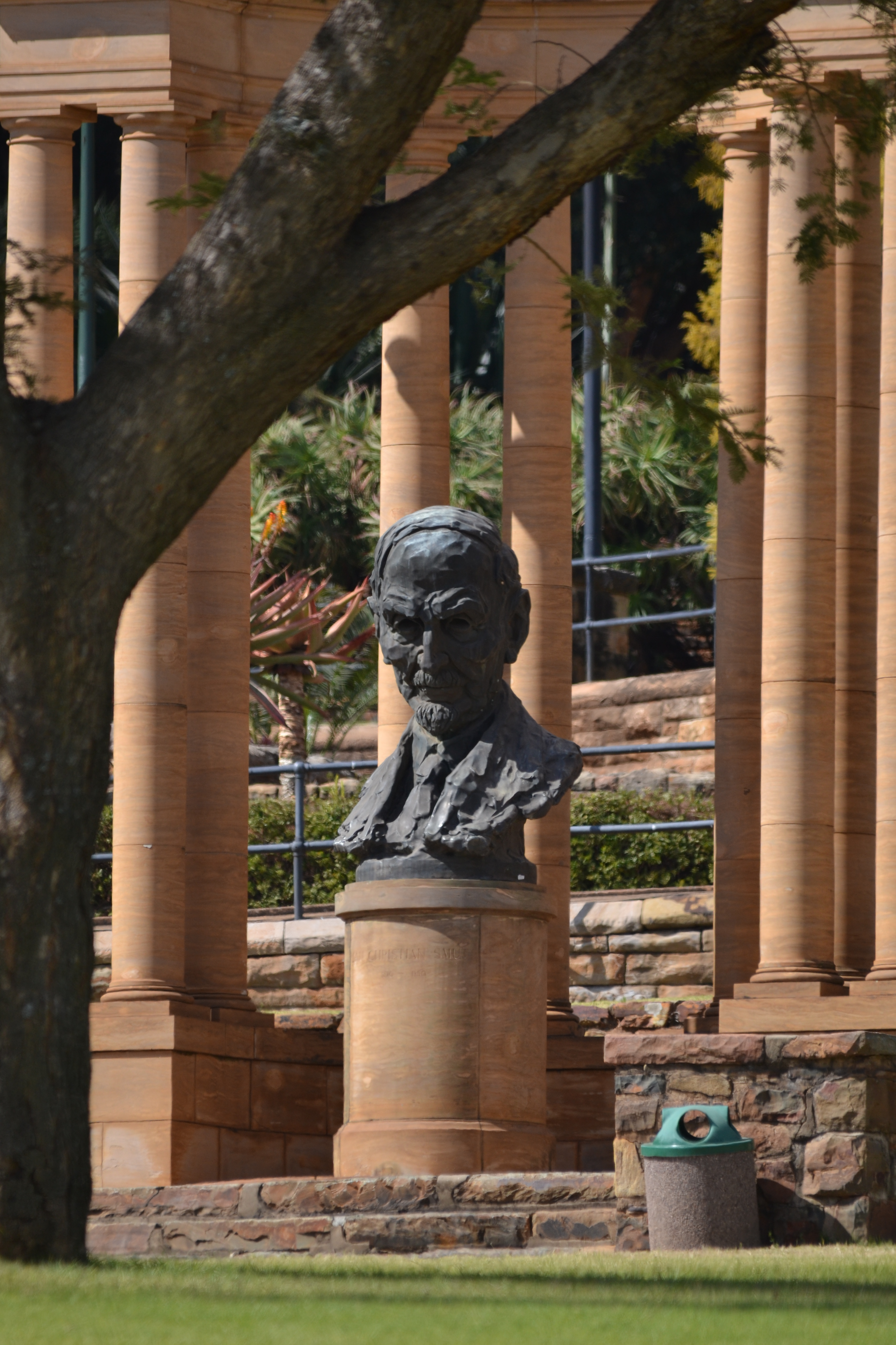 Union Buildings Pretoria This media shows a South African Protected Site with SAHRA file reference 9/2/258/0067.